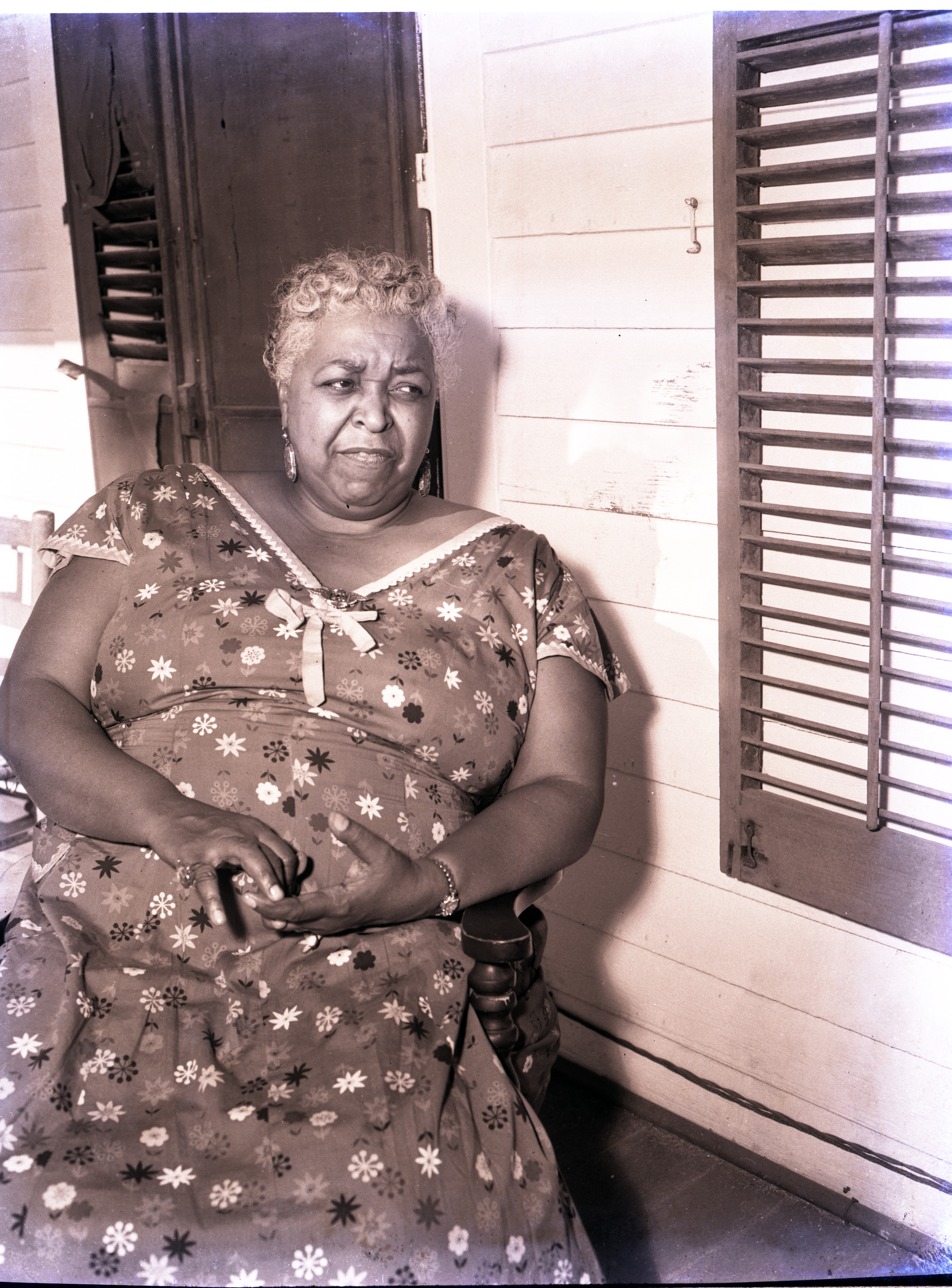 Ethel Waters in Key West in 1956 to film Carib Gold.